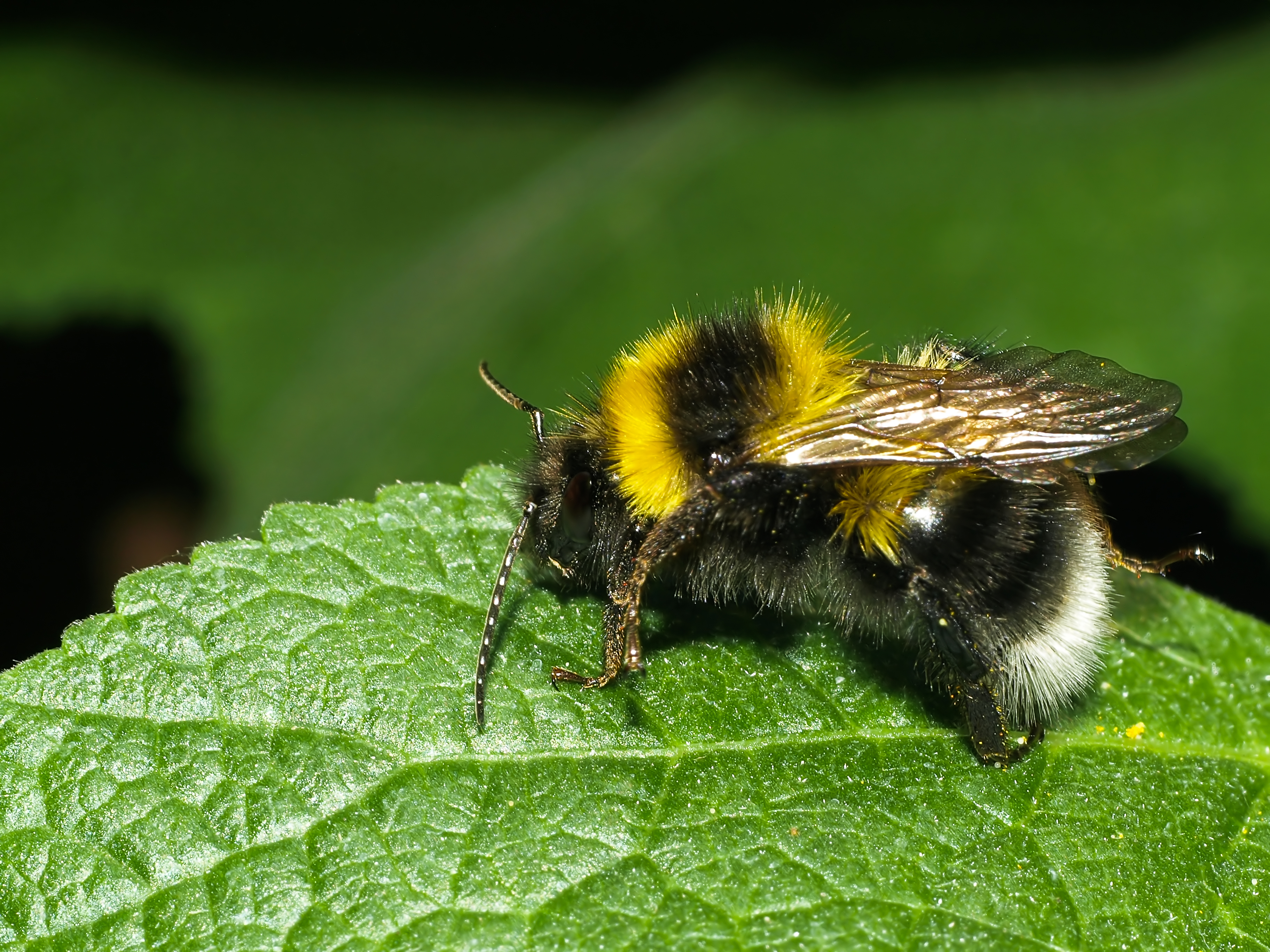 Bumblebee.